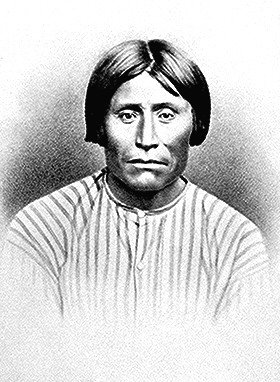 Captain Jack (Kintpuash), a Modoc subchief, executed October 3, 1873; bust-length, full-face. Photographed by Louis Heller, 1873. American Indian Select List number 93.